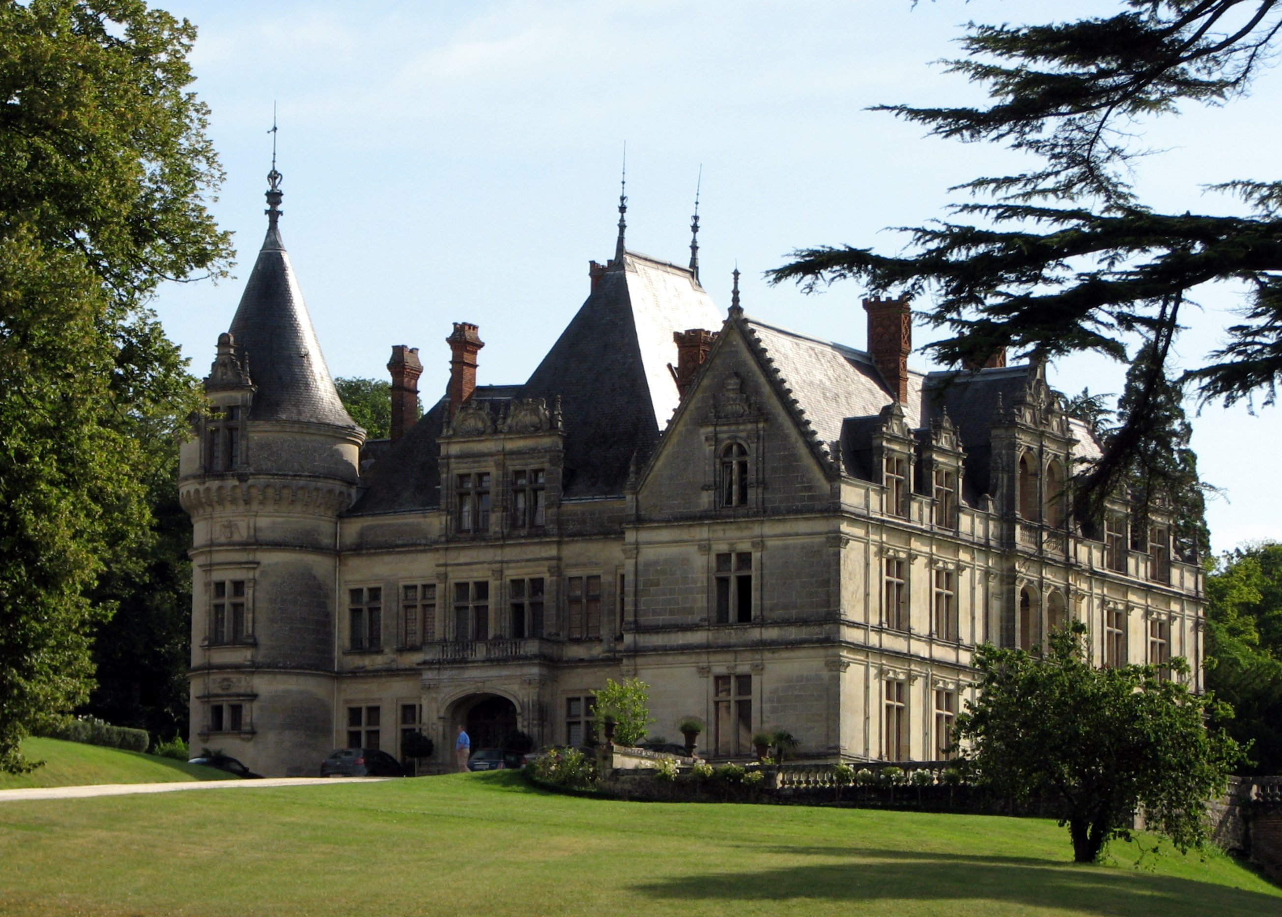 Château de la Bourdaisière, south-western aspect